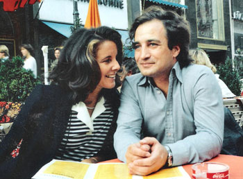 António Vasconcelos Xavier e sua mulher Viena de Austria Setembro 1981.